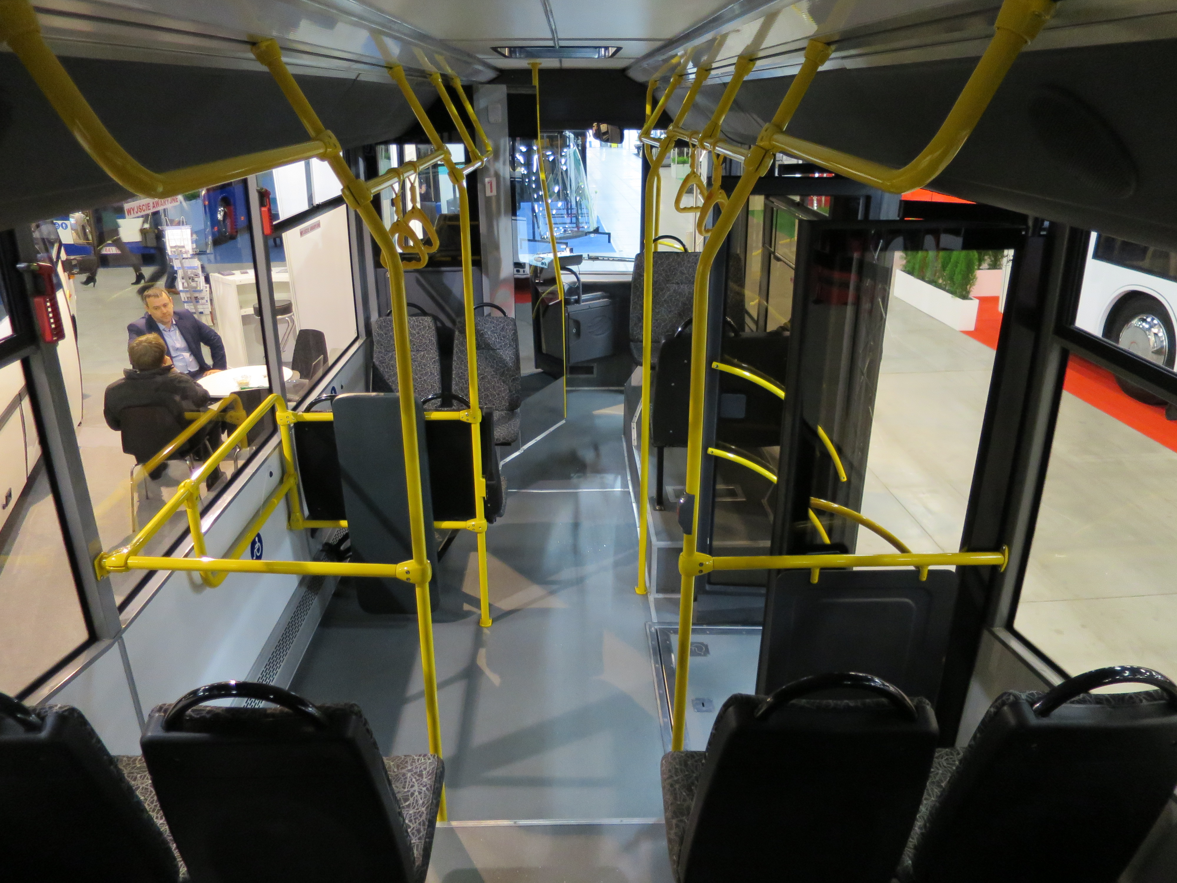 The making of this document was supported by Wikimedia Polska Association, within Wikigrant no. WG 2016-45. ZAZ A10C34